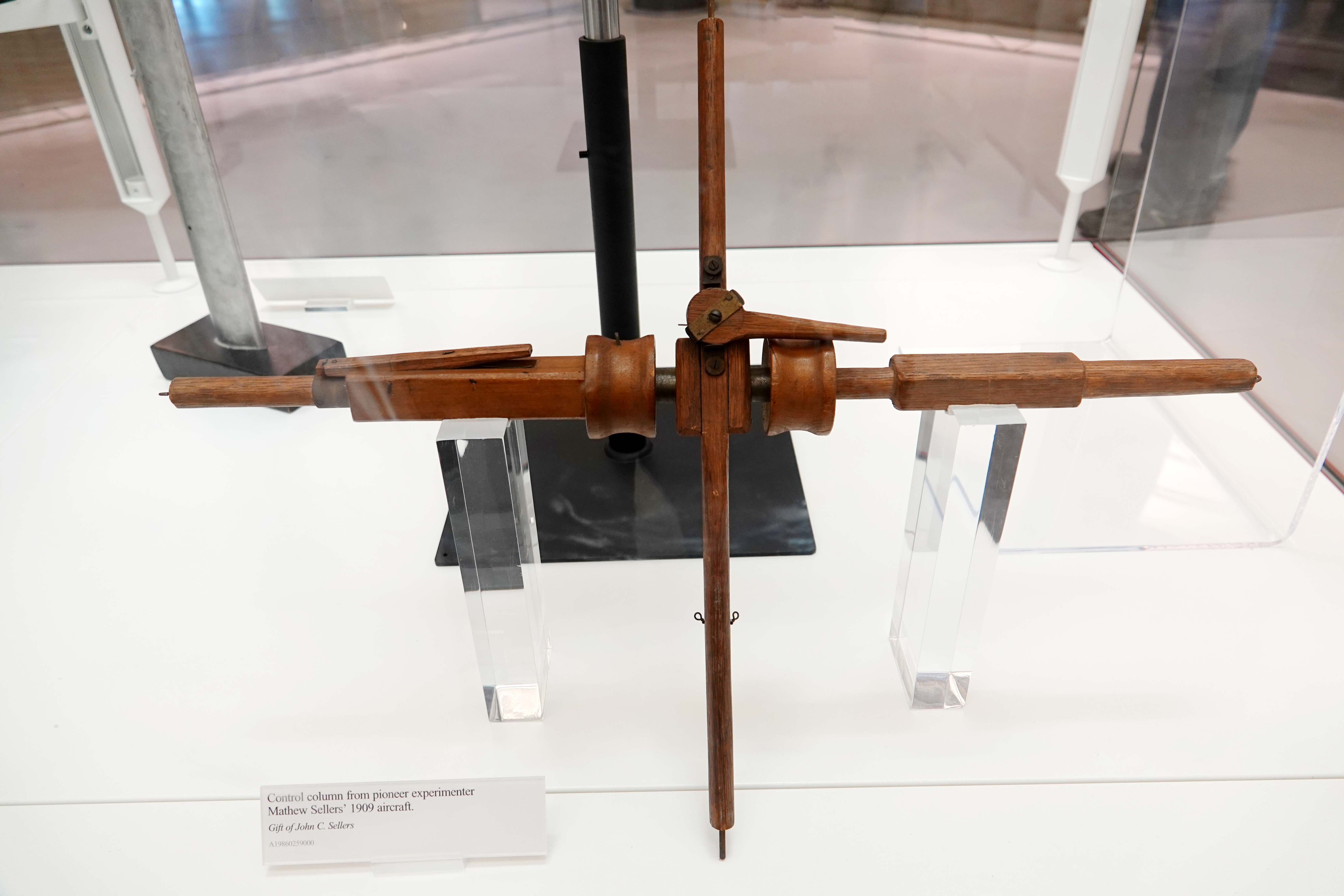 Picture of a control column from pioneer experimenter Mathew Sellers’ 1909 aircraft. Picture taken at the National Air and Space Museum's Steven F. Udvar-Hazy Center in Chantilly, Virginia, USA. -- Gift of John C. Sellers